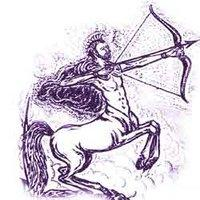 Chiron with bow and arrow.